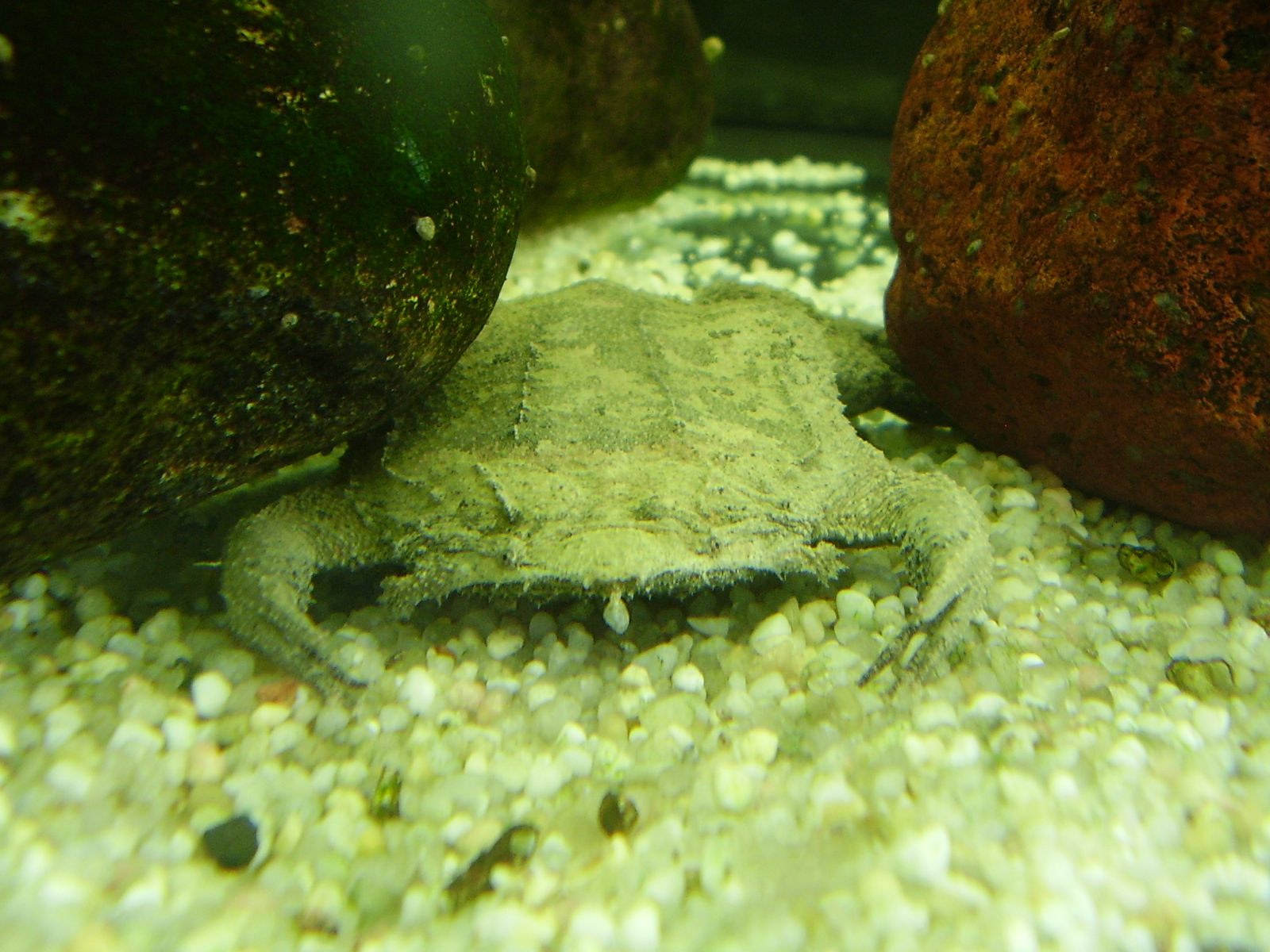 Suriname Toad (Pipa pipa)